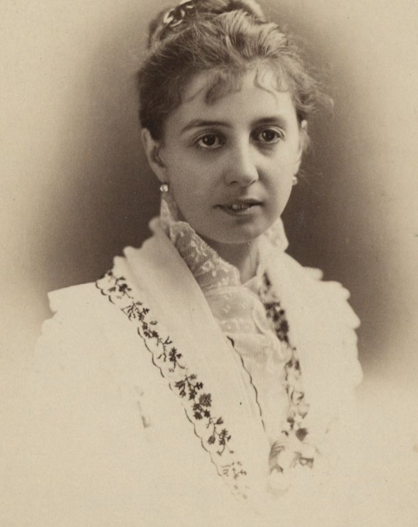 Sepia-tinted photograph of Flora Stone Mather taken by Edgar Decker circa 1870 to 1890. Mather was the daughter of industrialist Amasa Stone, and the wife of mining and shipping magnate Samuel Livingston Mather. She was a noted philanthropist in Cleveland, Ohio, in the United States. Decker died in 1905, more than 70 years ago. This places the unpublished image in the public domain. See: "Decker, Edgar." Encyclopedia of Cleveland History. 2018. Accessed November 16, 2018.